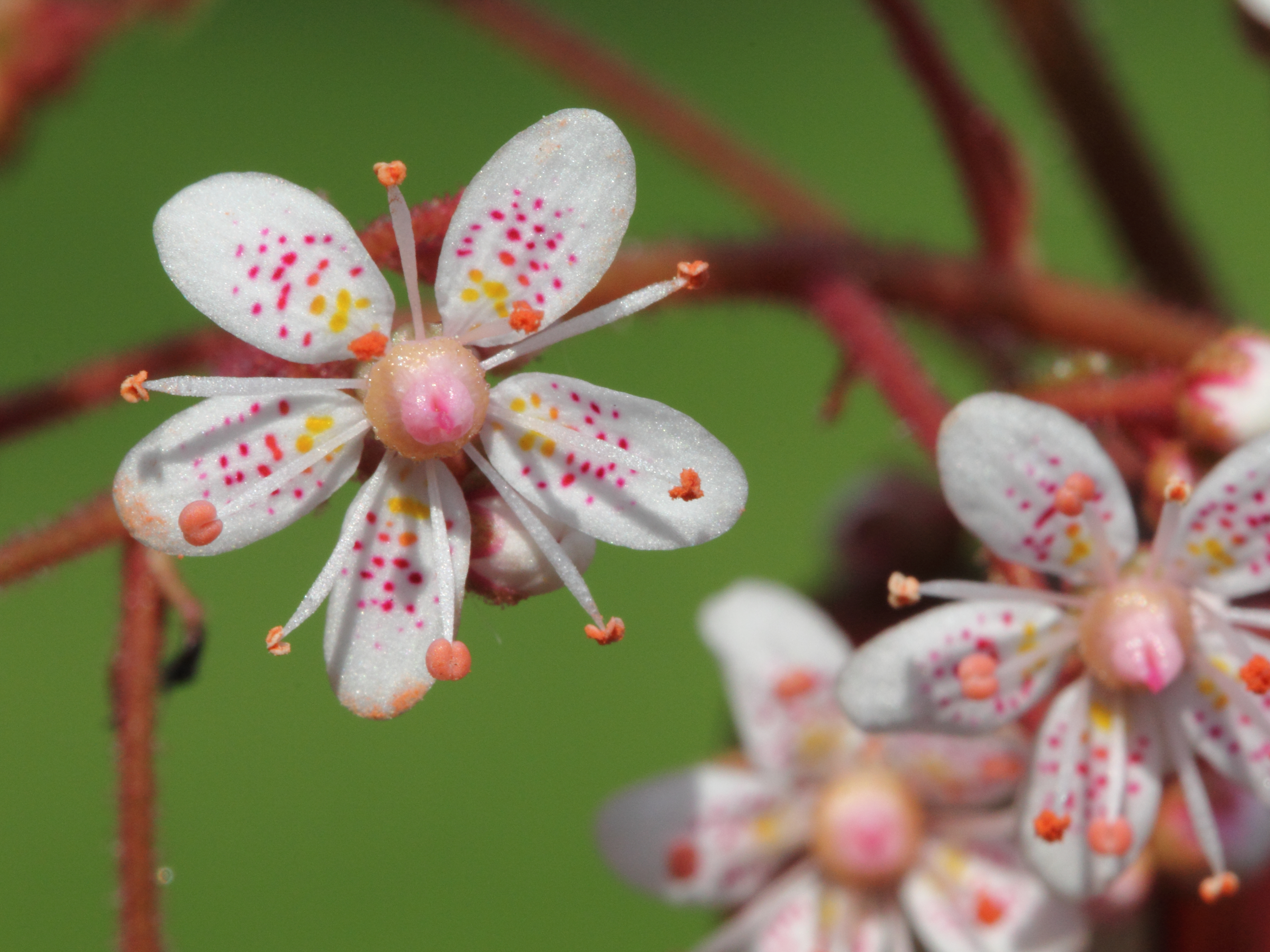 Close-up of saxifraga umbrosa blossom, picture taken in private garden. More precisely: Saxifraga x urbium